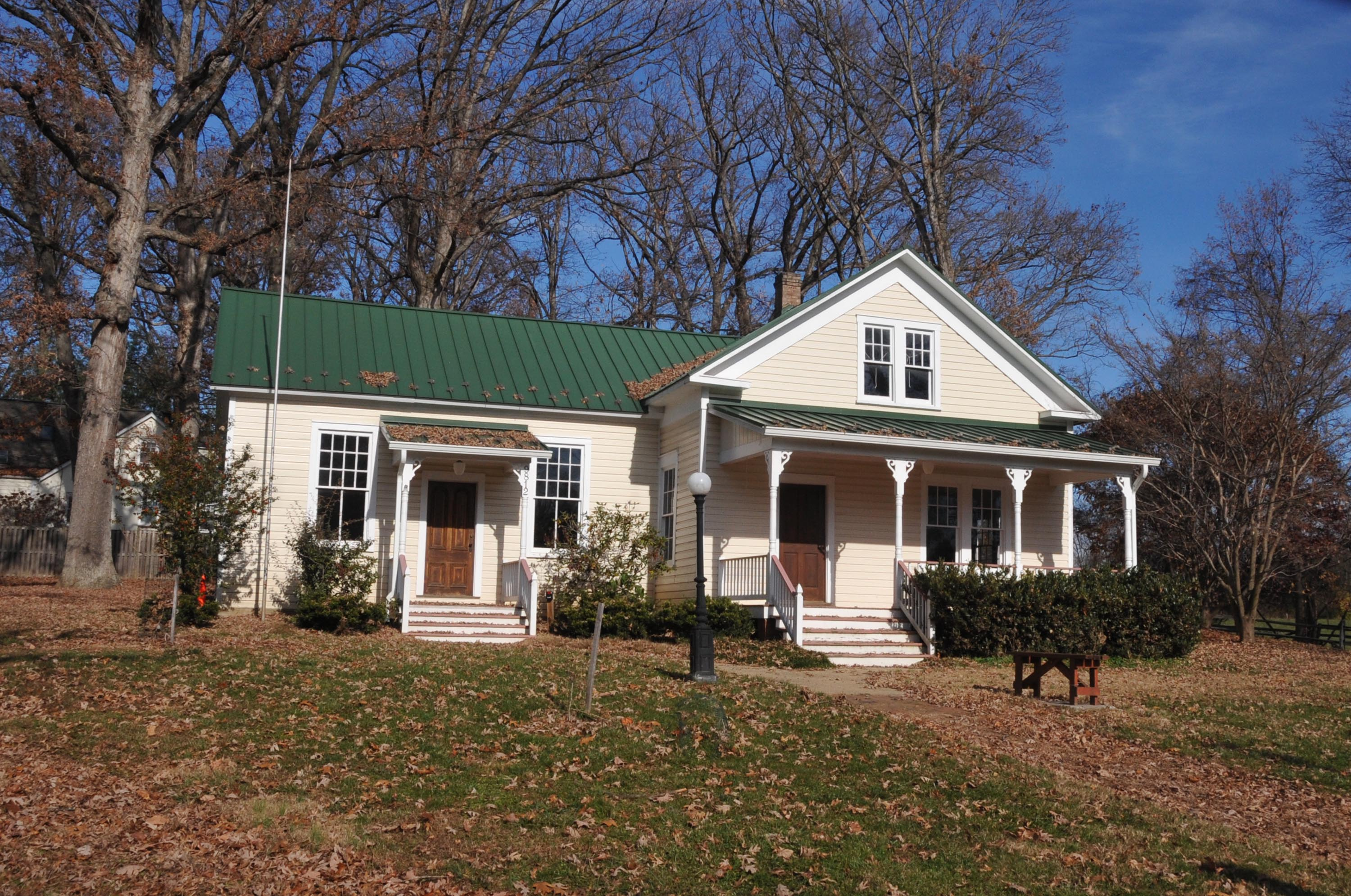 Built in 1889 as a one-room school but in 1911 doubled in size when another schoolhouse was moved and attached to it; has had various uses including library, post office, and bank